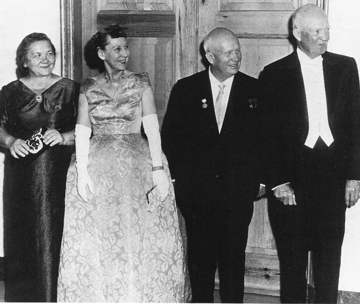 Dwight Eisenhower, Nikita Khrushchev, and their wives at state dinner 1959 From left to right: Nina Khrushcheva (Khrushchev's wife) Mamie Eisenhower (Eisenhower's wife) Nikita Khrushchev President Dwight Eisenhower